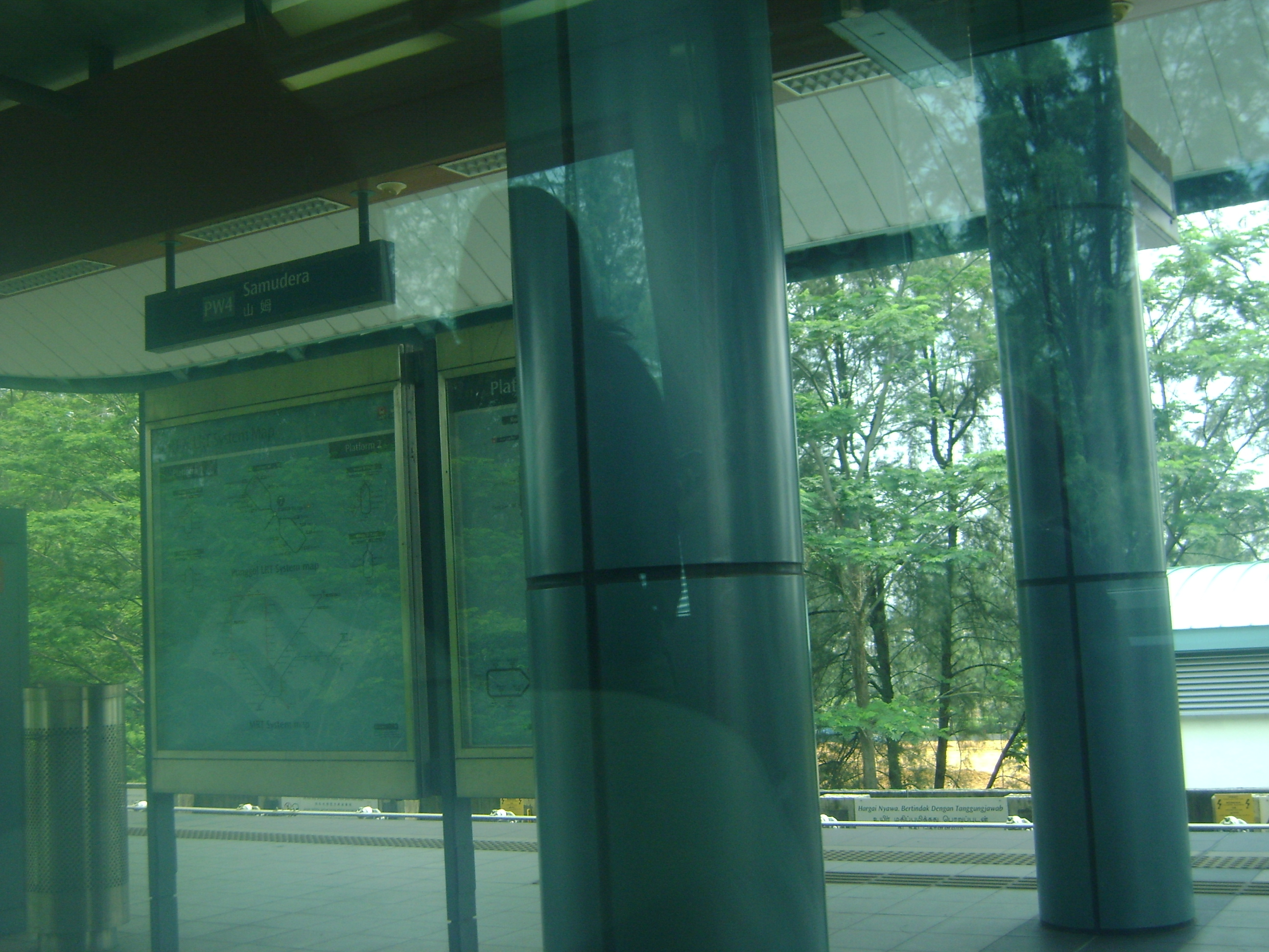 Lrt View